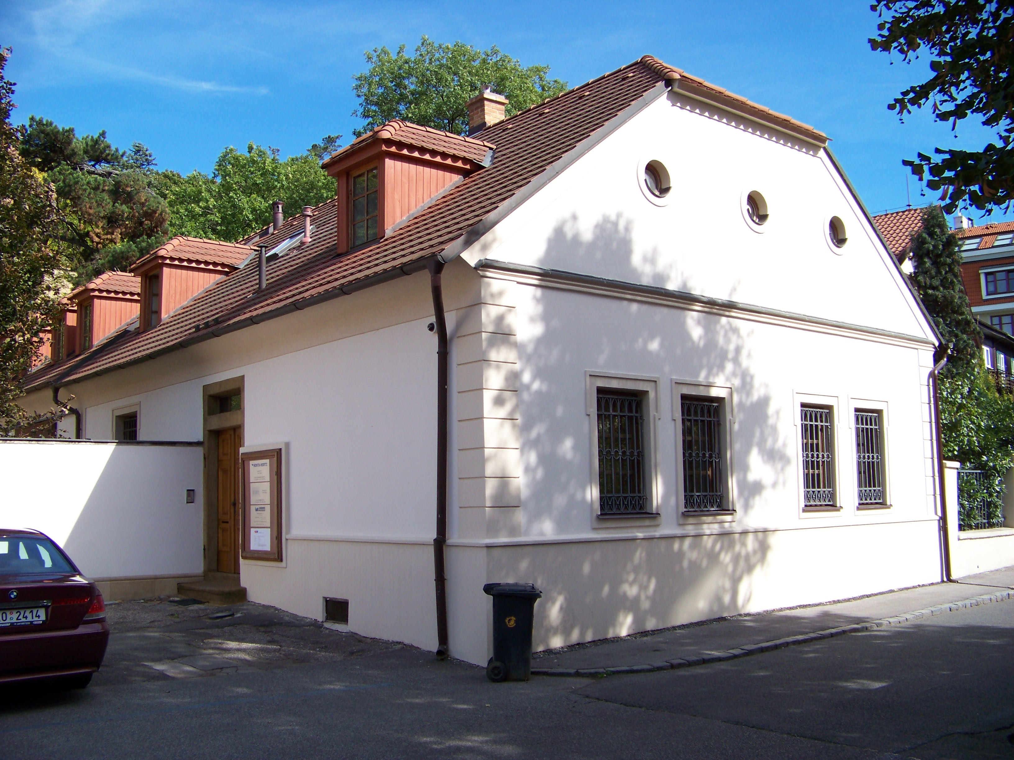 Prague-Vinohrady, the Czech Republic. Perucká 61/13 Vondračka estate.